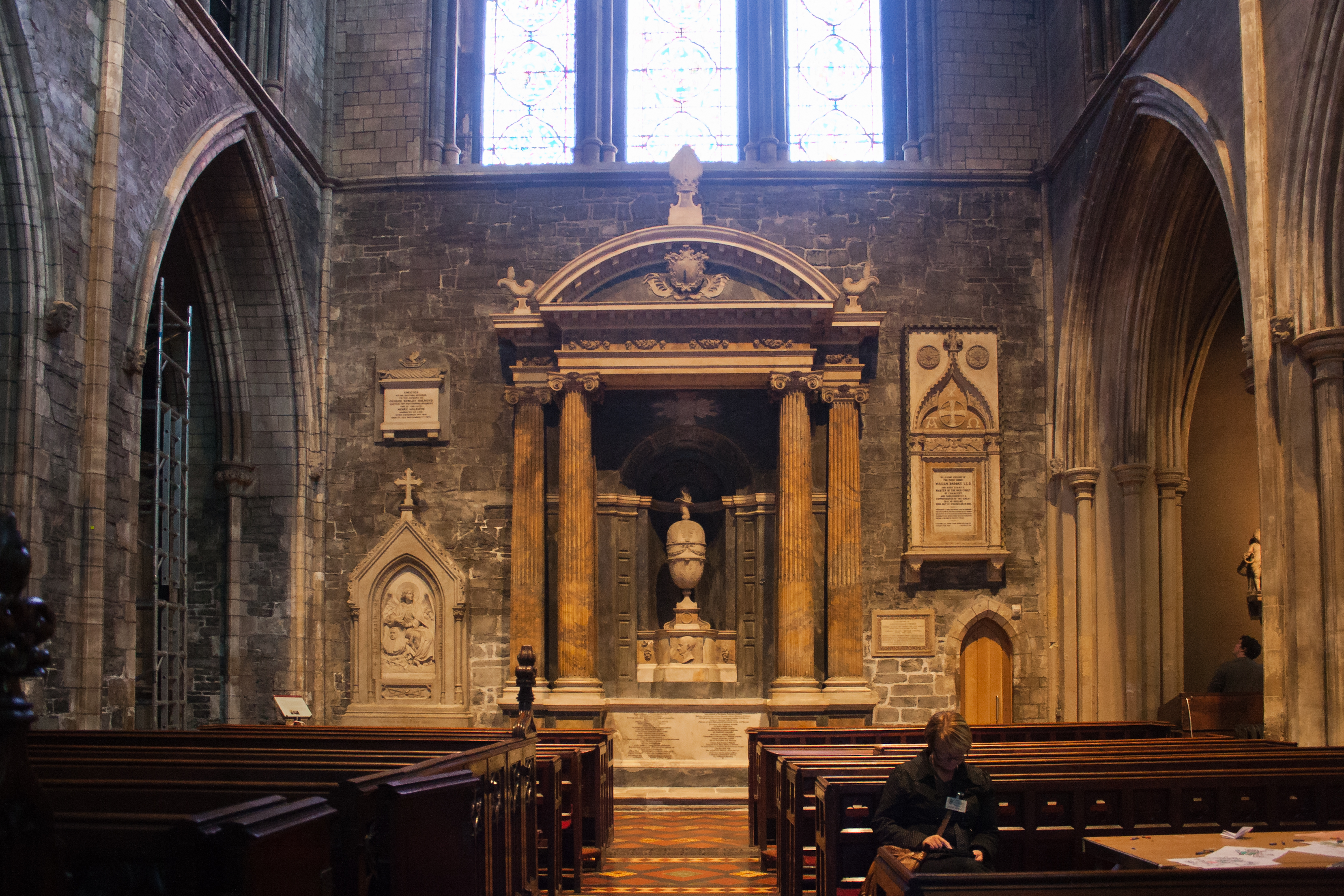 South transept with a huge monument dedicated to Archbishop Arthur Smyth in the centre of its south wall, designed by John Smyth, carved by van Nost, and installed by Henry Darley. It was finished in 1775. See DIA entry and Christine Casey: The Buildings of Ireland: Dublin, ISBN 978-0-300-10923-8, p. 620.